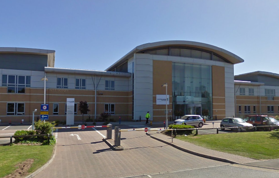 Exterior of bmi regional rented office space at Pegasus Business Park, East Midlands Airport.